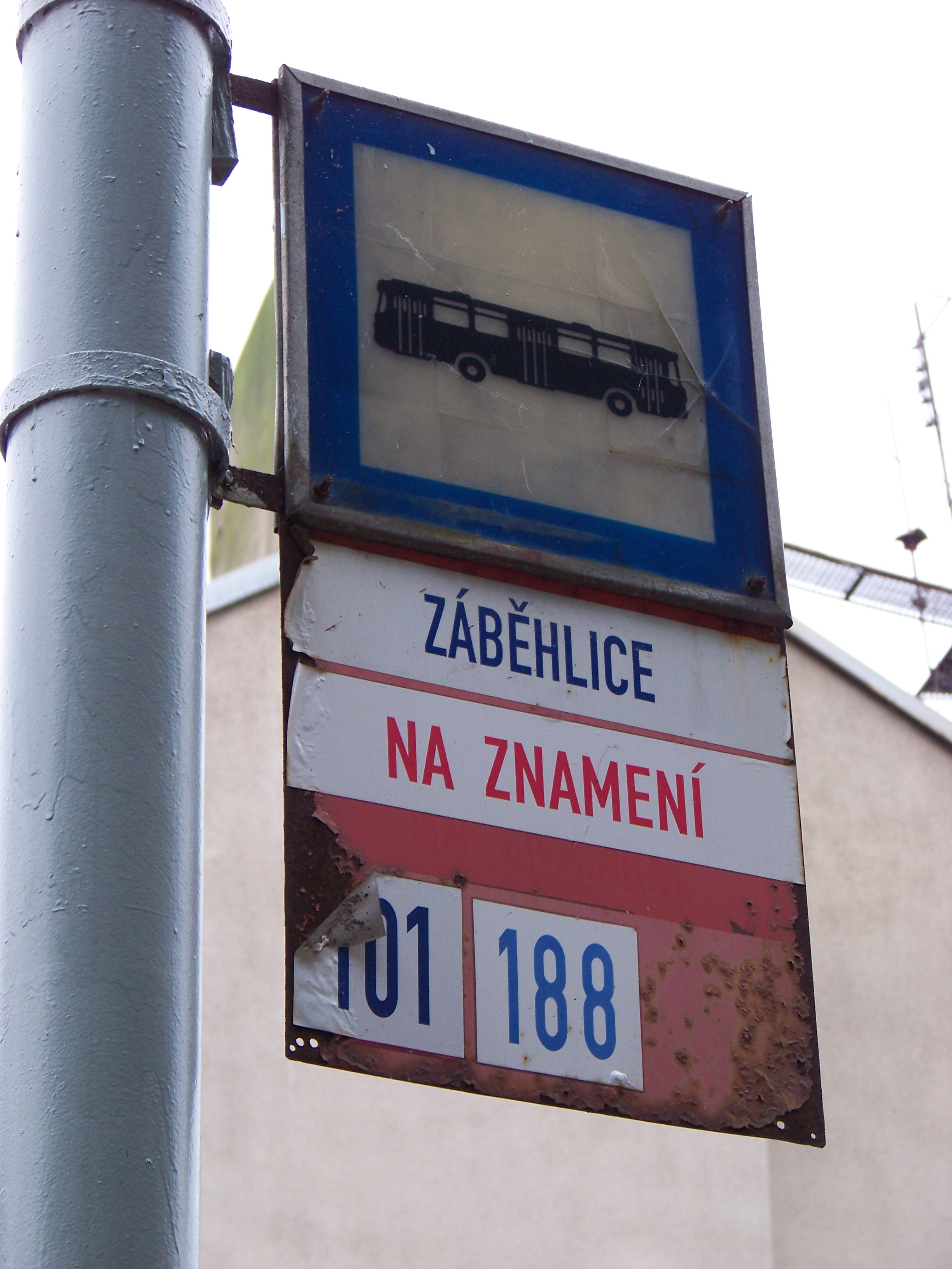 Prague-Záběhlice, Záběhlická street, a bus stop sign.